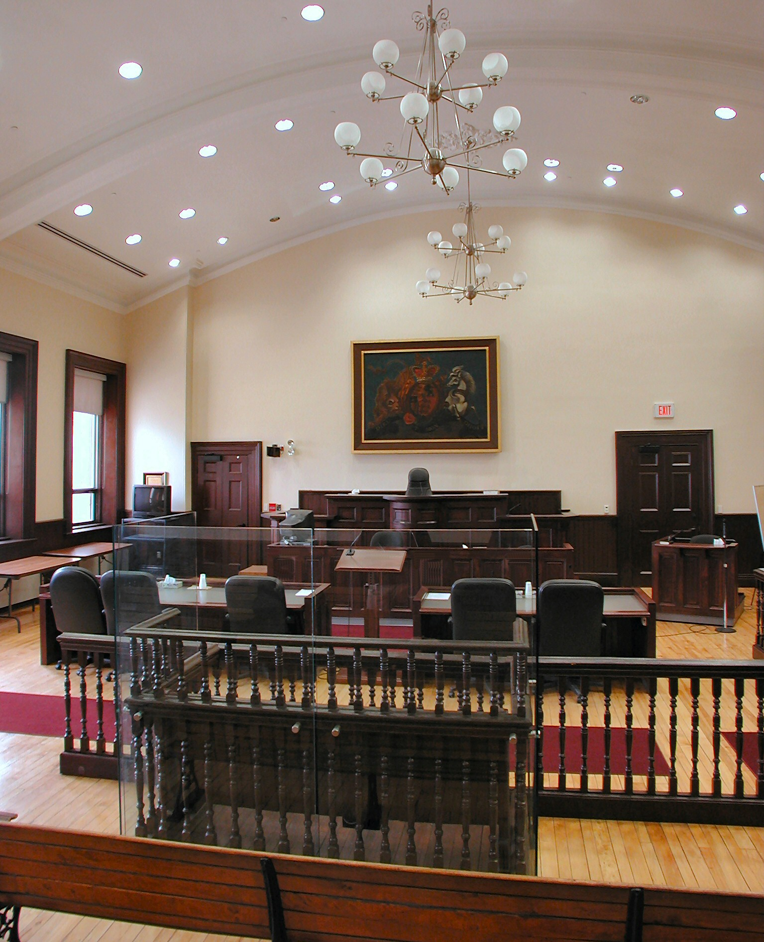 Interior photo of a courtroom in Brockville, Ontario